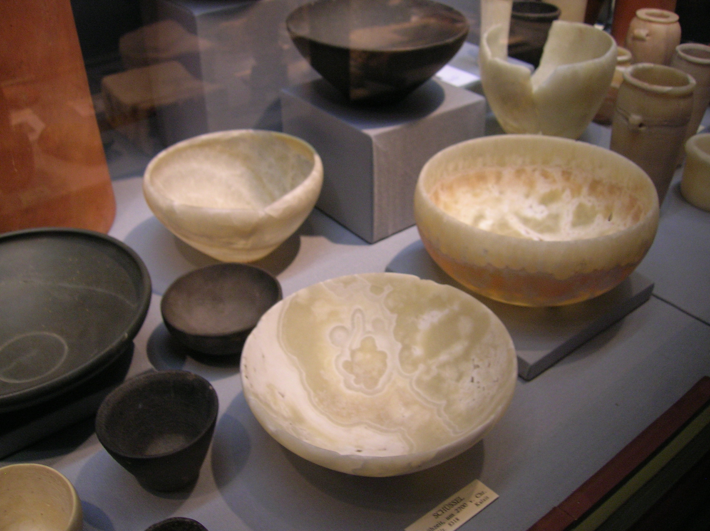 Alabaster bowls from ancient Egypt